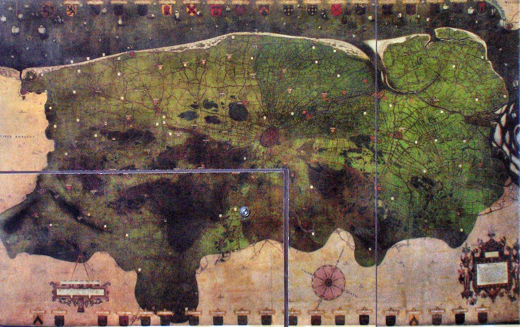 Map of the fishing village Walraversijde, Belgium